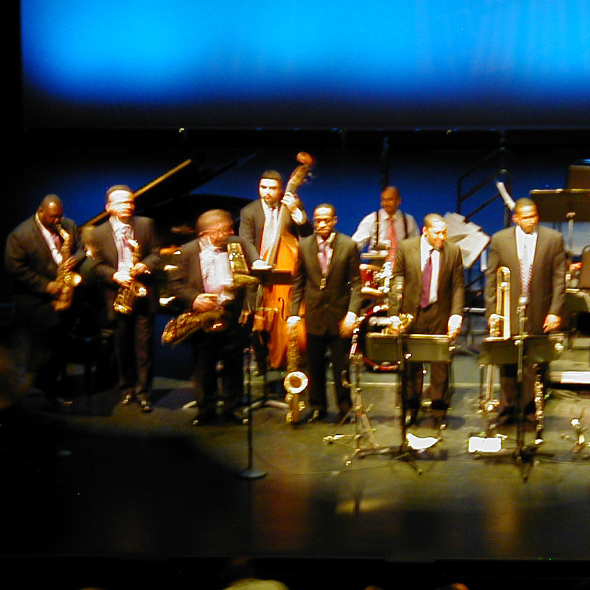 Wynton Marsalis, 2nd from right "Photo taken from the balcony, after the encore, just before the final bow. Bloomington Center for the Performing Arts, Illinois, January 19, 2008. A great show, an evening of all Duke Ellington. Started with a wonderful long gentle nuanced solo by Wynton that turned into Mood Indigo. Later he took another breathtaking solo on "In My Solitude". The first half ended with a romping fast version of Old Man Blues. The 2nd half featured a great version of Flaming Sword. The last regular song was Rockin' In Rhythm, then for an encore they did C-Jam Blues. We were in the center of the balcony where the sound was still perfect. Sorry about the fuzzy shots. Before the show they announced "no cameras, please". Also I had brought my cornet mouthpiece for Wynton to bless, but I was told no admittance anywhere back stage. At least I can say I tried to meet you, Wynton. Thanks for coming to Bloomington/Normal!"